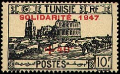 El_Djem_Amphitheatre_Stamp_in_1947_-_Tunisia (Semi-Postal)